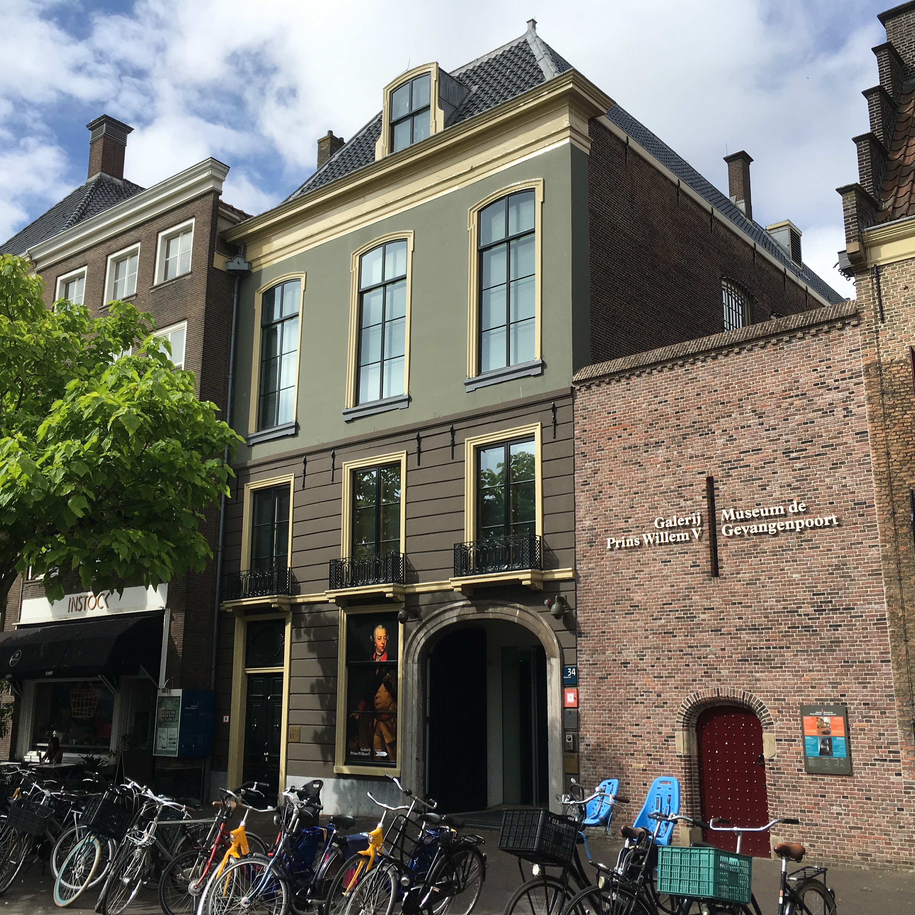 Prince William V Gallery, The Hague, Netherlands